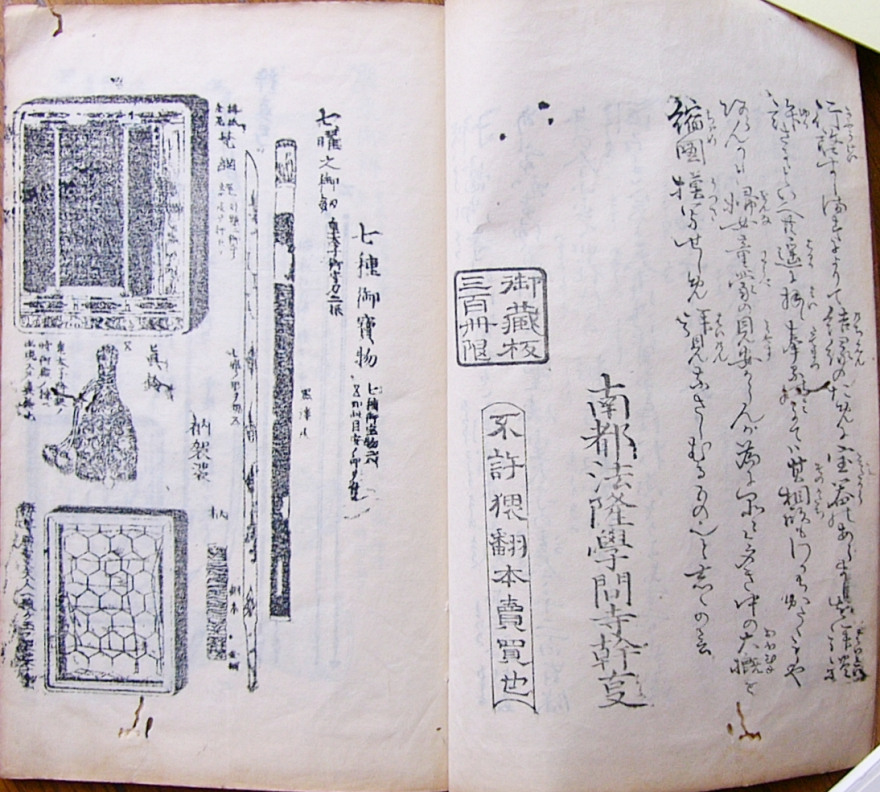 Illustrated Pamphlet for the expedition of treasures of the Horyu-ji monastery woodblock printing ink on paper, 22.3x11.5cm